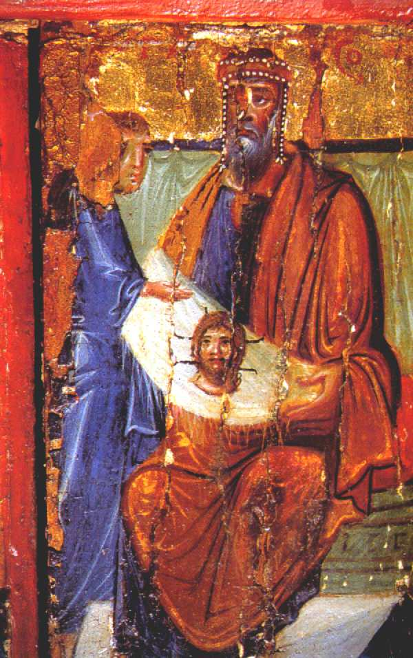 An encaustic painting entitled Abgar [of Edessa] receiving the Mandylion from Thaddeus.